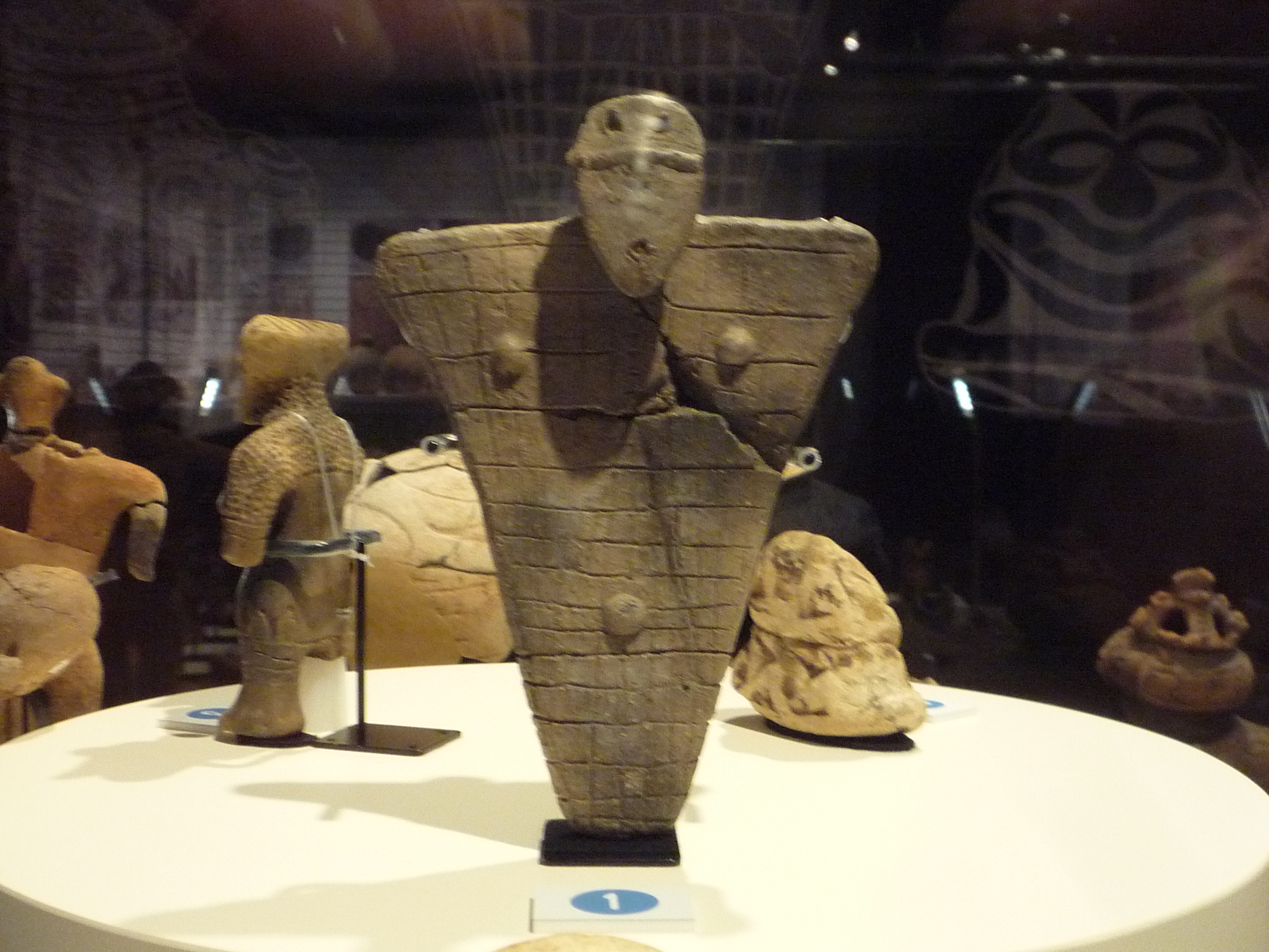 Dogu at the Isedotai Jomonkan museum in Kitaakita City, Akita Prefecture, Japan